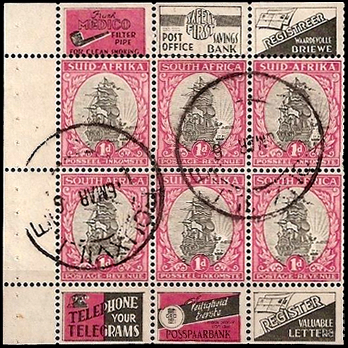 Booklet pane of postage stamps of South Africa, ship of Jan van Riebeek in Capetown, 1d, 1936